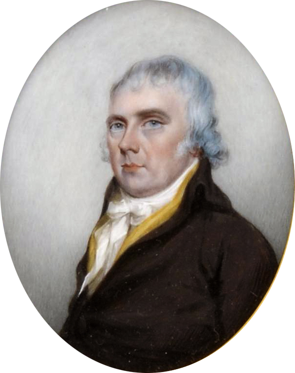 Josiah Spode I (1733–1797) watercolour on ivory oval, 7.7 cm high inscribed verso: The Portrait of the late Josiah Spode of Stoke upon Trent / who died 18 August 1797 aged 64 / the Great-grandfather of the present Josiah Spode of the Mount / 1832